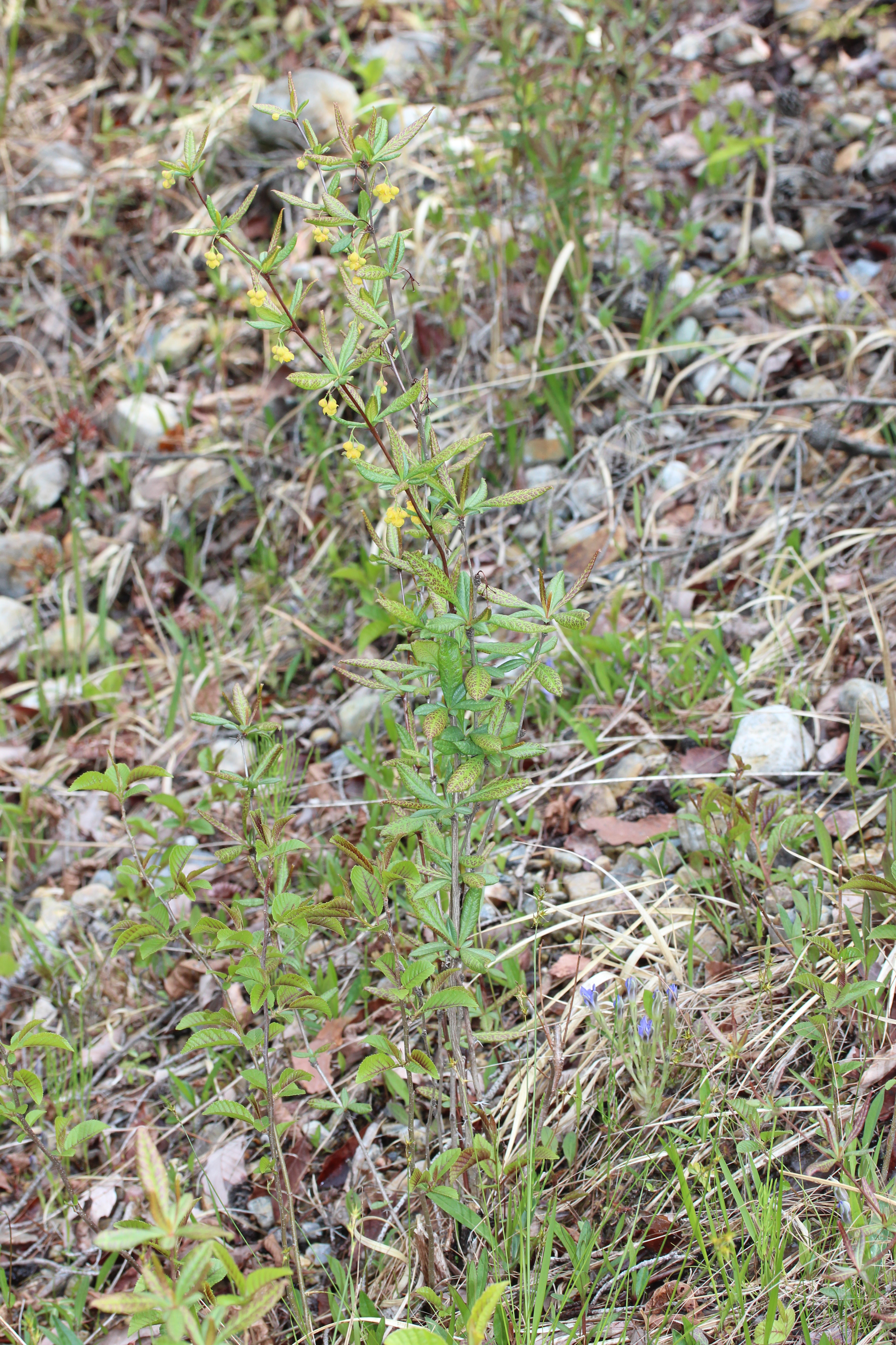 Berberis sieboldii, in Kasugai, Aichi prefecture, Japan.